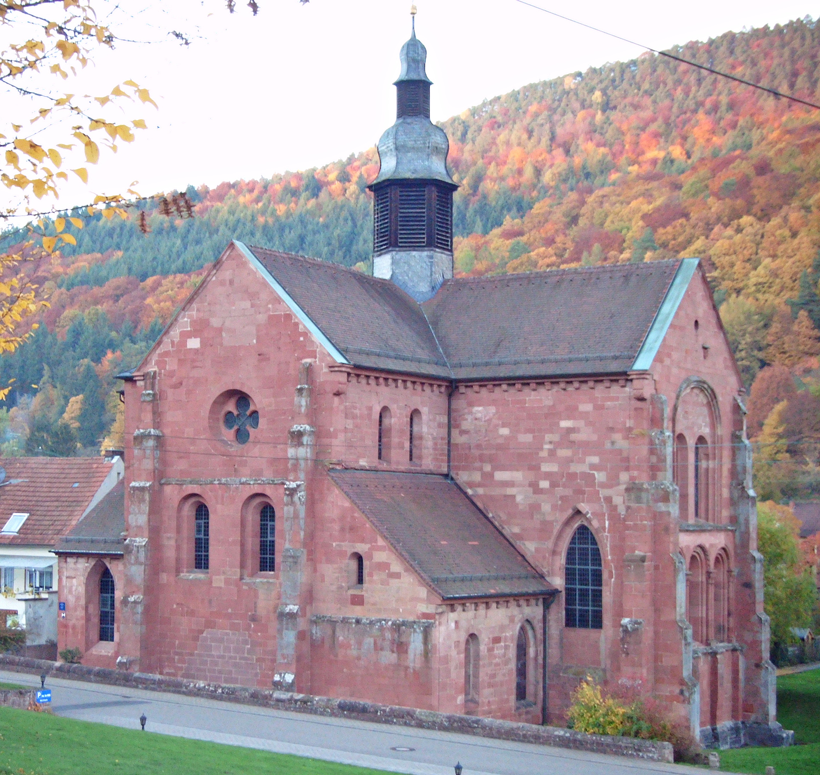 Klosterkirche Eußerthal